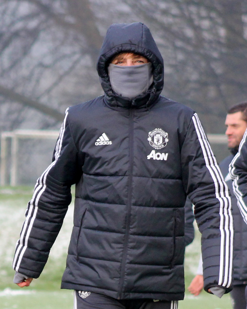 Jacob Carney (left) and Brandon Williams (centre) of Manchester United after the U18 Premier League match against Liverpool at The Cliff, Salford, England on Saturday 9 December 2017.